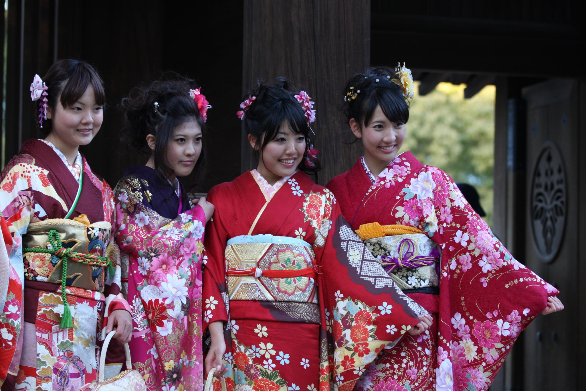 Four beauties. Japanese women wearing furisode for the Coming of Age ceremony